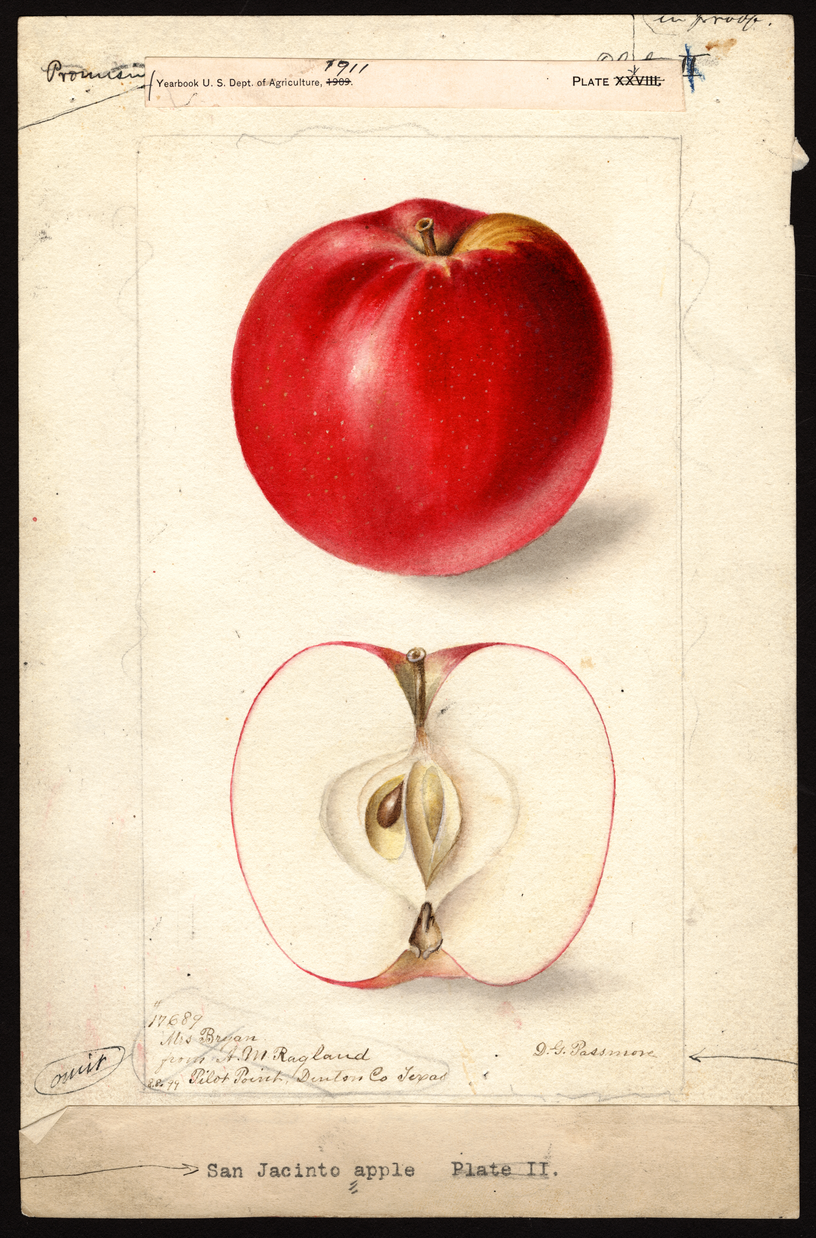 Image of the San Jacinto variety of apples (scientific name: Malus domestica), with this specimen originating in Pilot Point, Denton County, Texas, United States. Source: U.S. Department of Agriculture Pomological Watercolor Collection. Rare and Special Collections, National Agricultural Library, Beltsville, MD 20705.